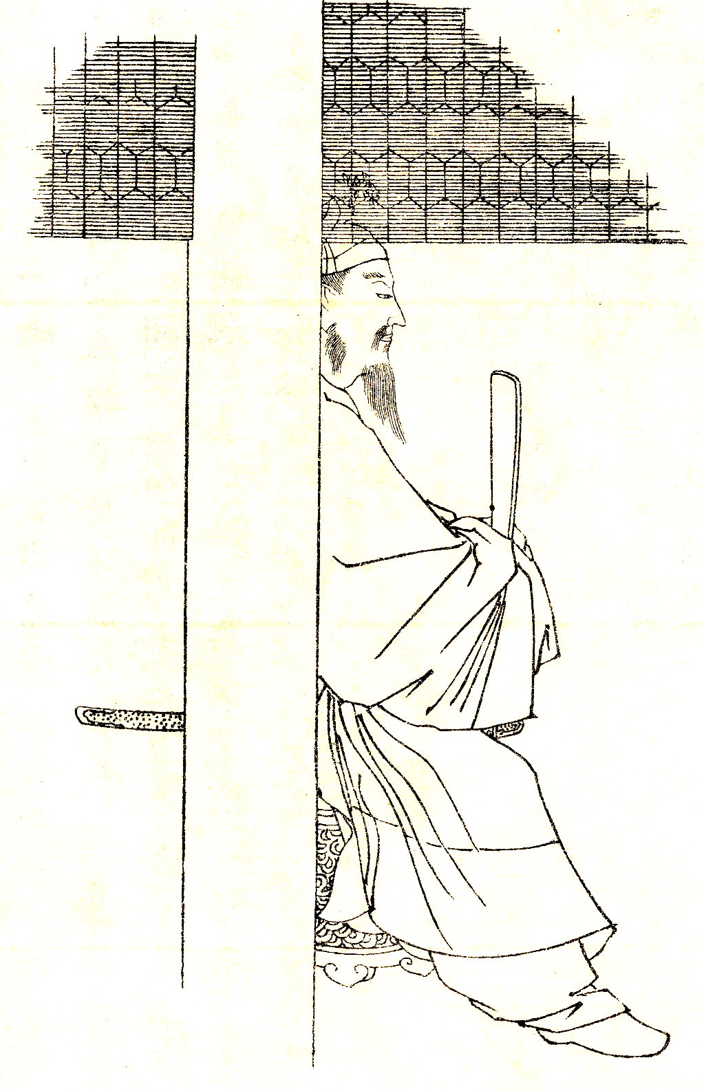 Awata no Mahito（粟田真人） was a Japanese court noble in Asuka period.